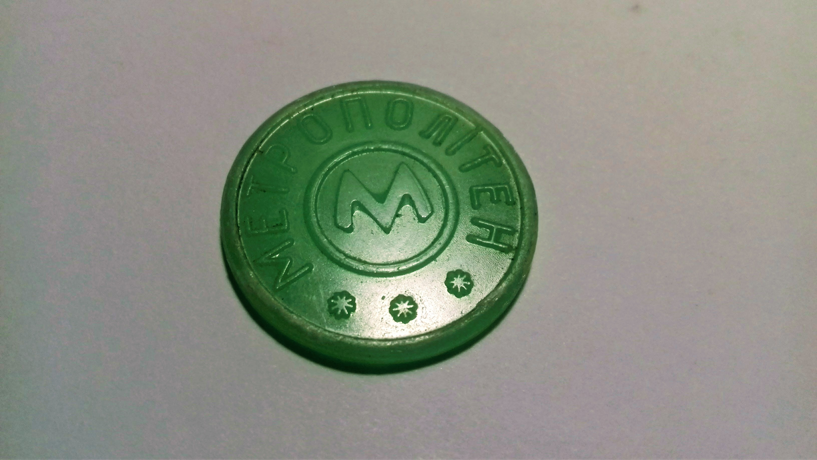 Dnipro Metro tickets